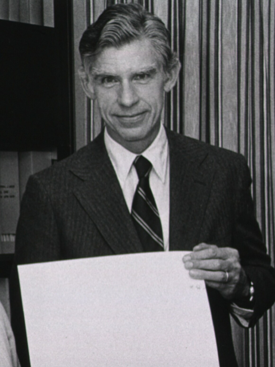 Frank Ruddle, Ph. D., a Yale University professor, is standing between Drs. Ruth Kirschstein, director of the National Institute of General Medical Sciences (NIGMS) and Donald S. Fredrickson, director of the National Institutes of Health (NIH). They are holding the R.E. Dyer lectureship award. A bookcase is in the background. Ruddle lecture was on gene transfer in mammalian cells.